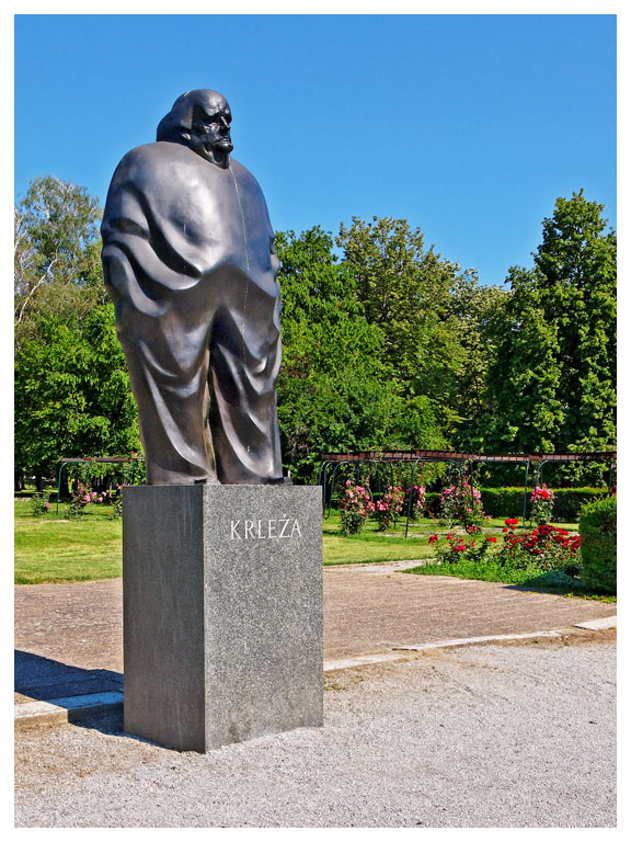 A monument to Miroslav Krleza in Osijek, Croatia. Mr. Krleza is considered by most critics to be the greatest Croatian writer.